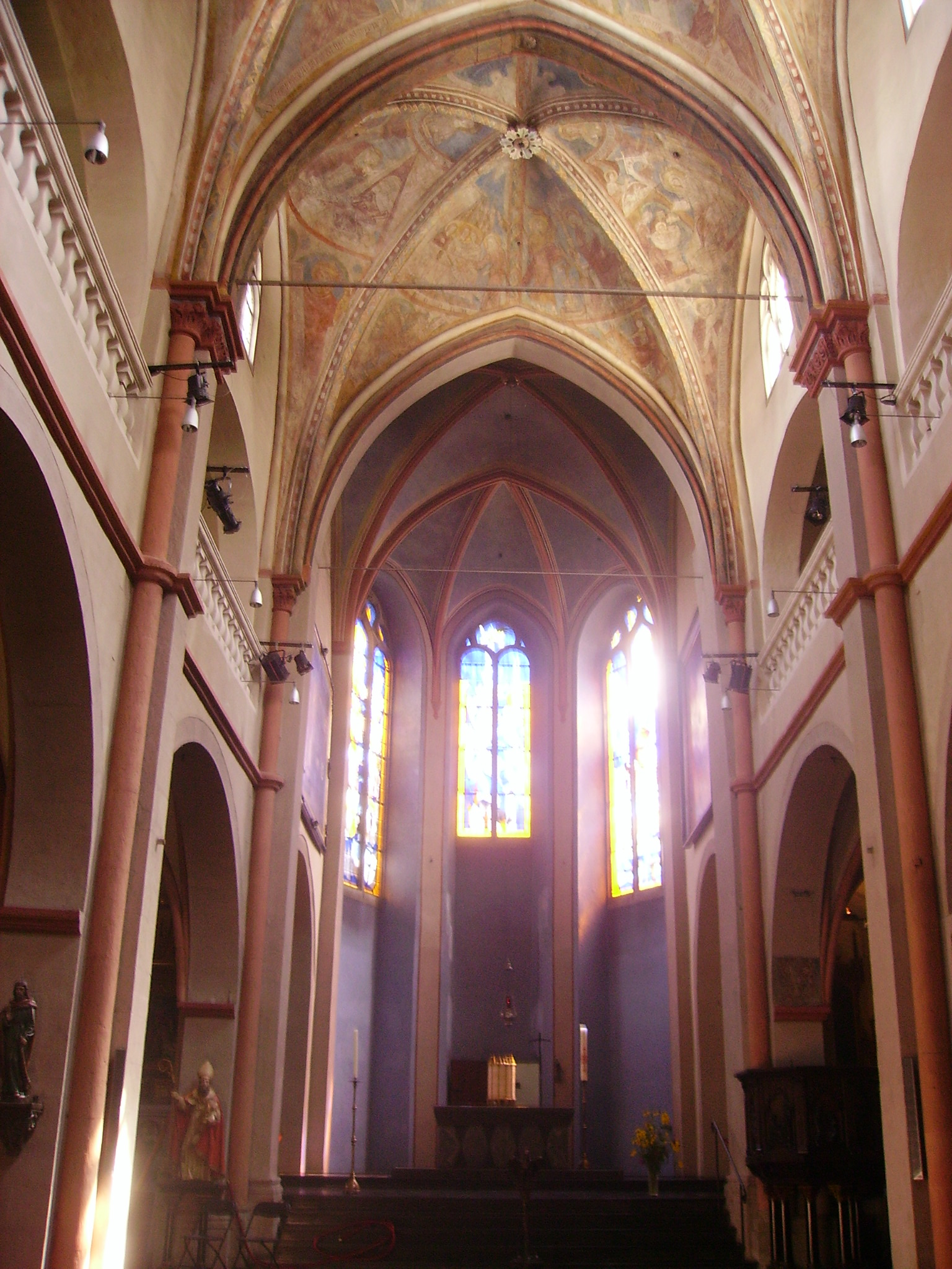 Nave of the catholic Church St. Mary in Lyskirchen, Cologne